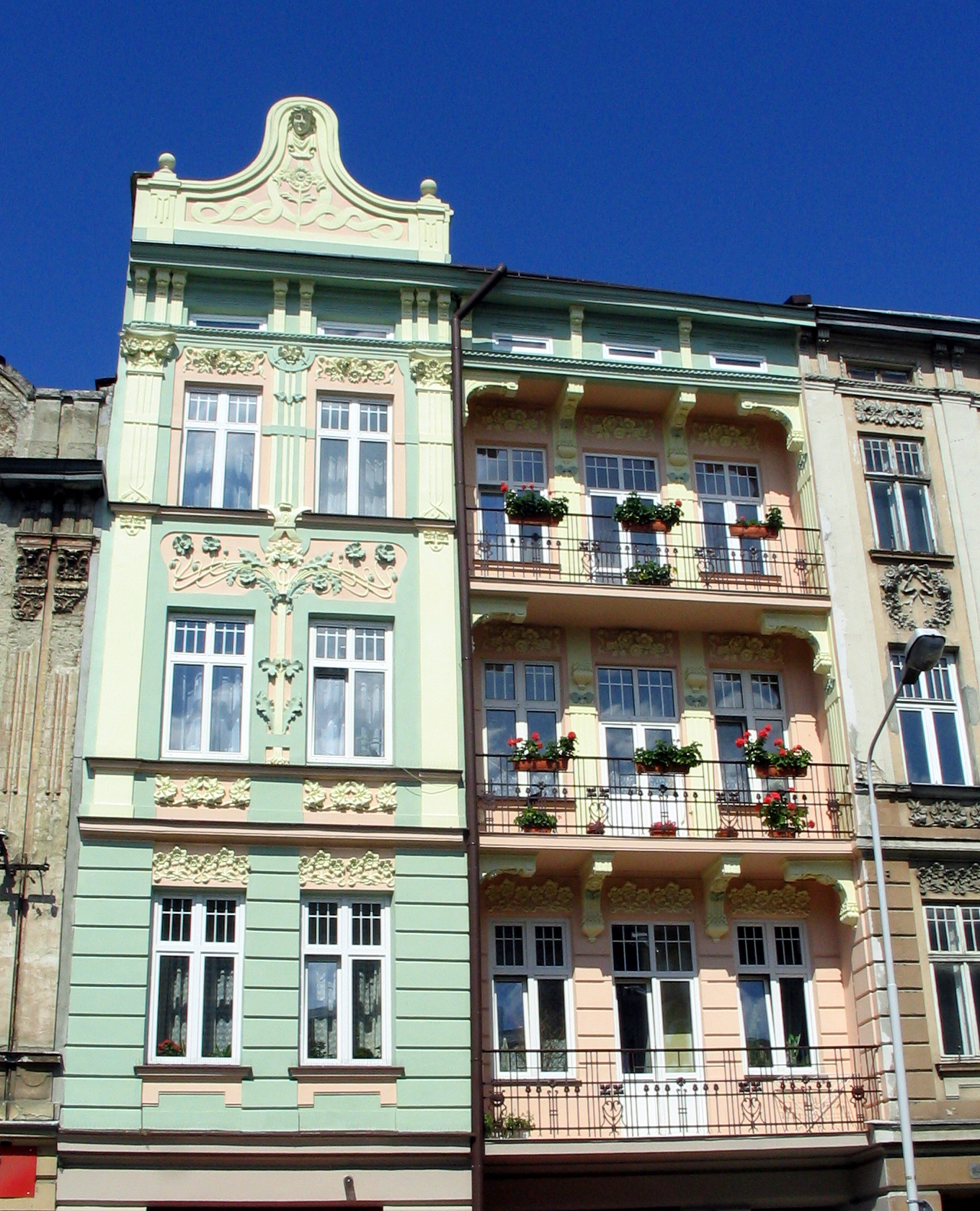 Kamienice on Grunwaldzka Street, Przemyśl, Poland.